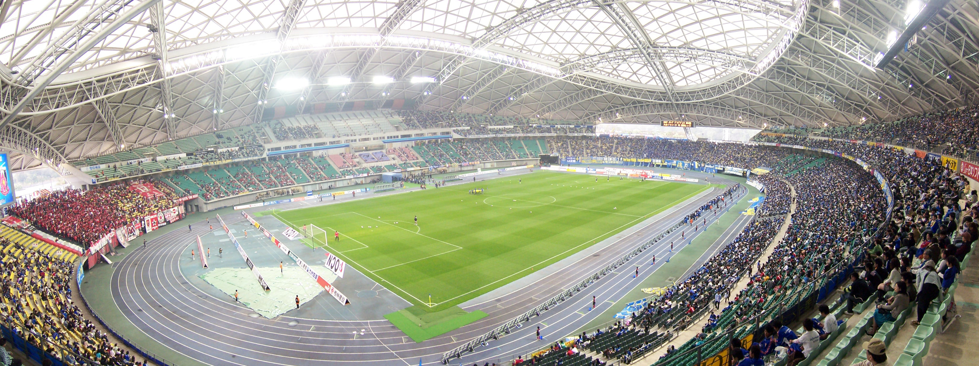 Ōita Stadium, Ōita Prefecture, Japan. Its roof was closed. This picture was taken on April 1, 2007. The match is J-League Division 1 between Urawa Reds and Ōita Trinita. The picture was first uploaded in the Japanese internet community 2ch "Domestic Soccer Board" (国内サッカー板) "Thread for Uploading Pictures Taken in Stadiums, Part 16" (スタジアム写真をウプするスレPart16). The original uploader permitted me to upload the picture.